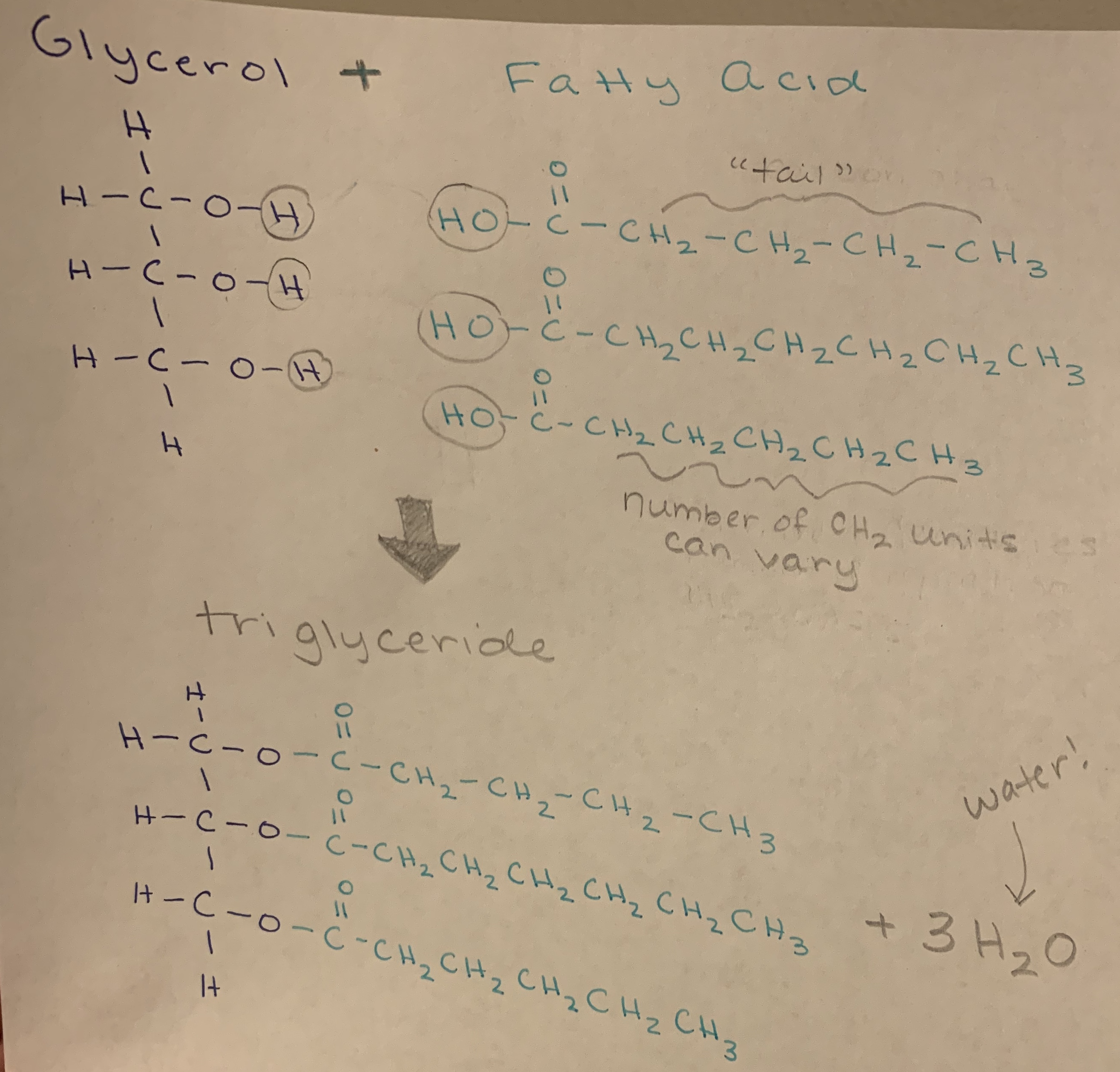 Glycerol can add three fatty acids to make a triglyceride. Three water molecules are also made during this process.